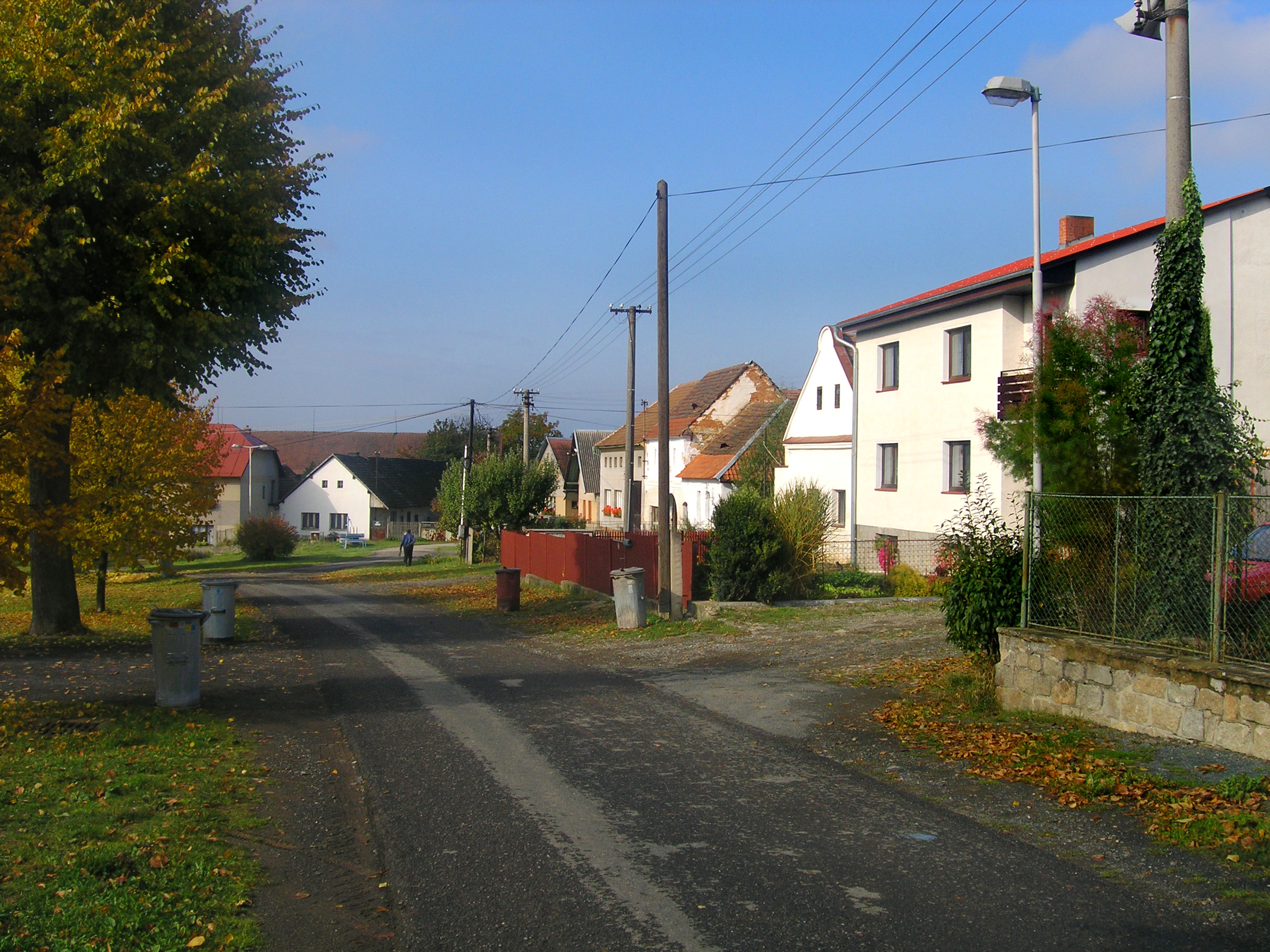 Kožlí village, Havlíčkův Brod District, Czech Republic